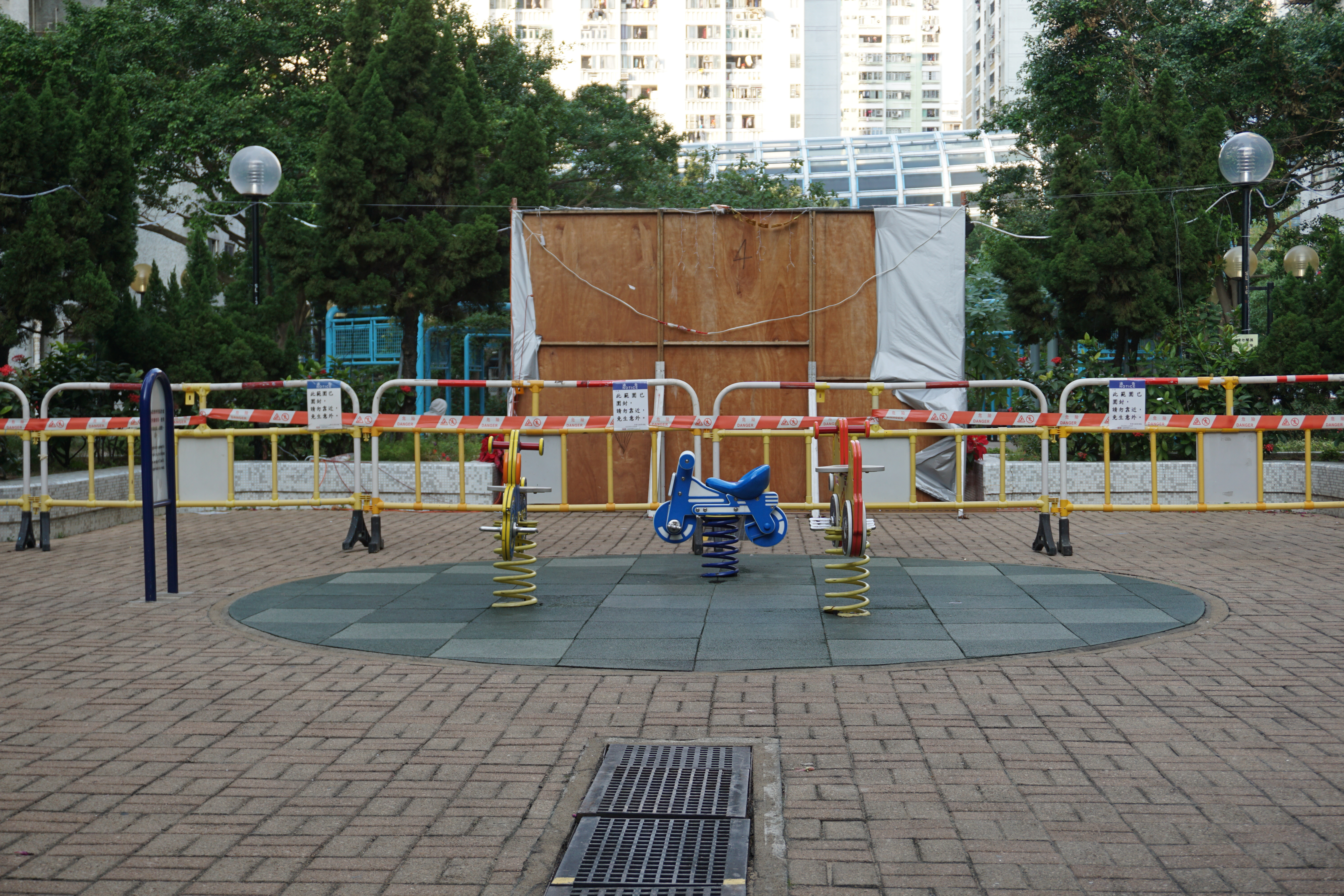 Tsui Ning Garden in Tuen Mun, Hong Kong.